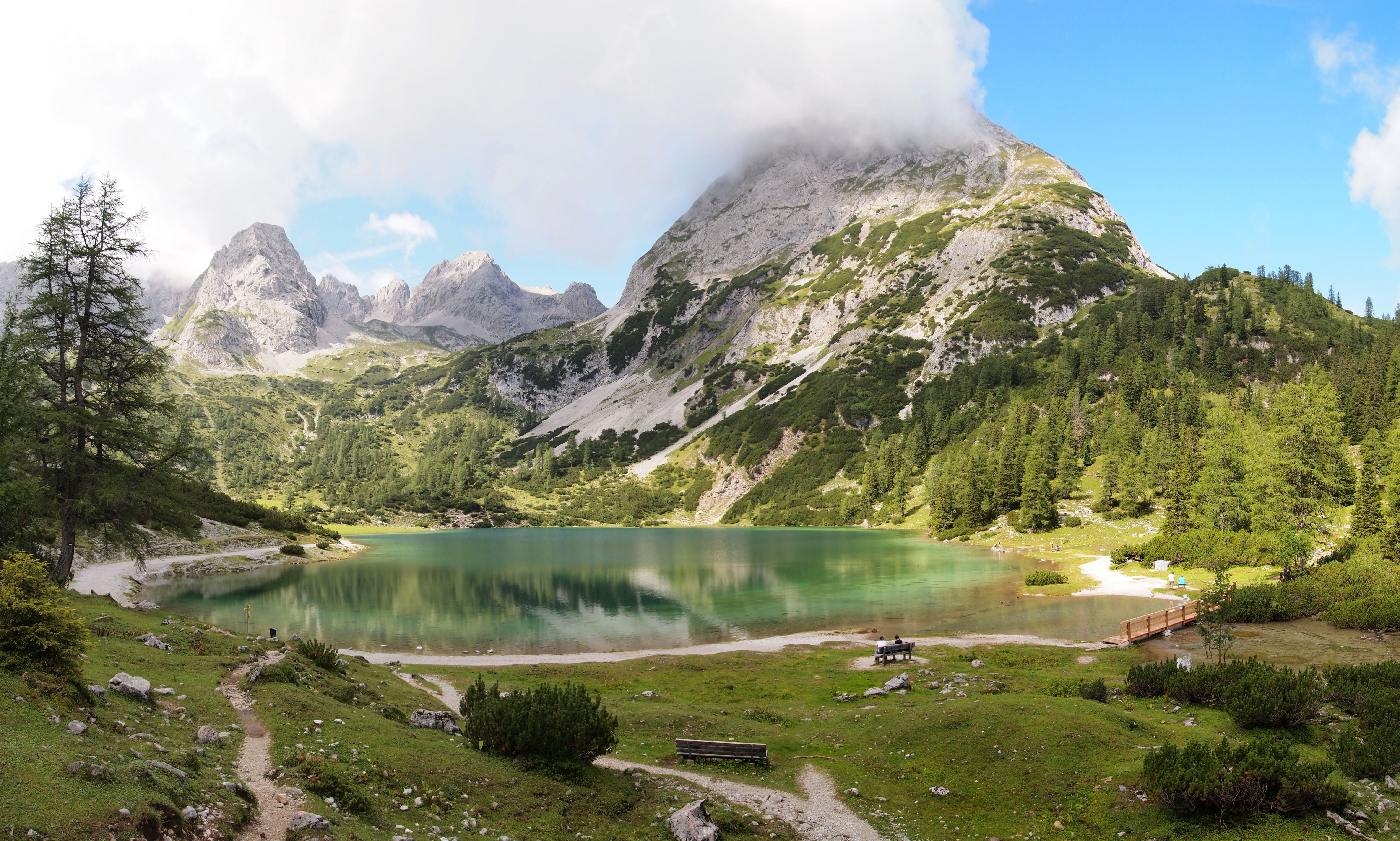 Lake Seebensee and mountain view in Tyrol, Austria. This photograph was taken with a Olympus E-PL1.